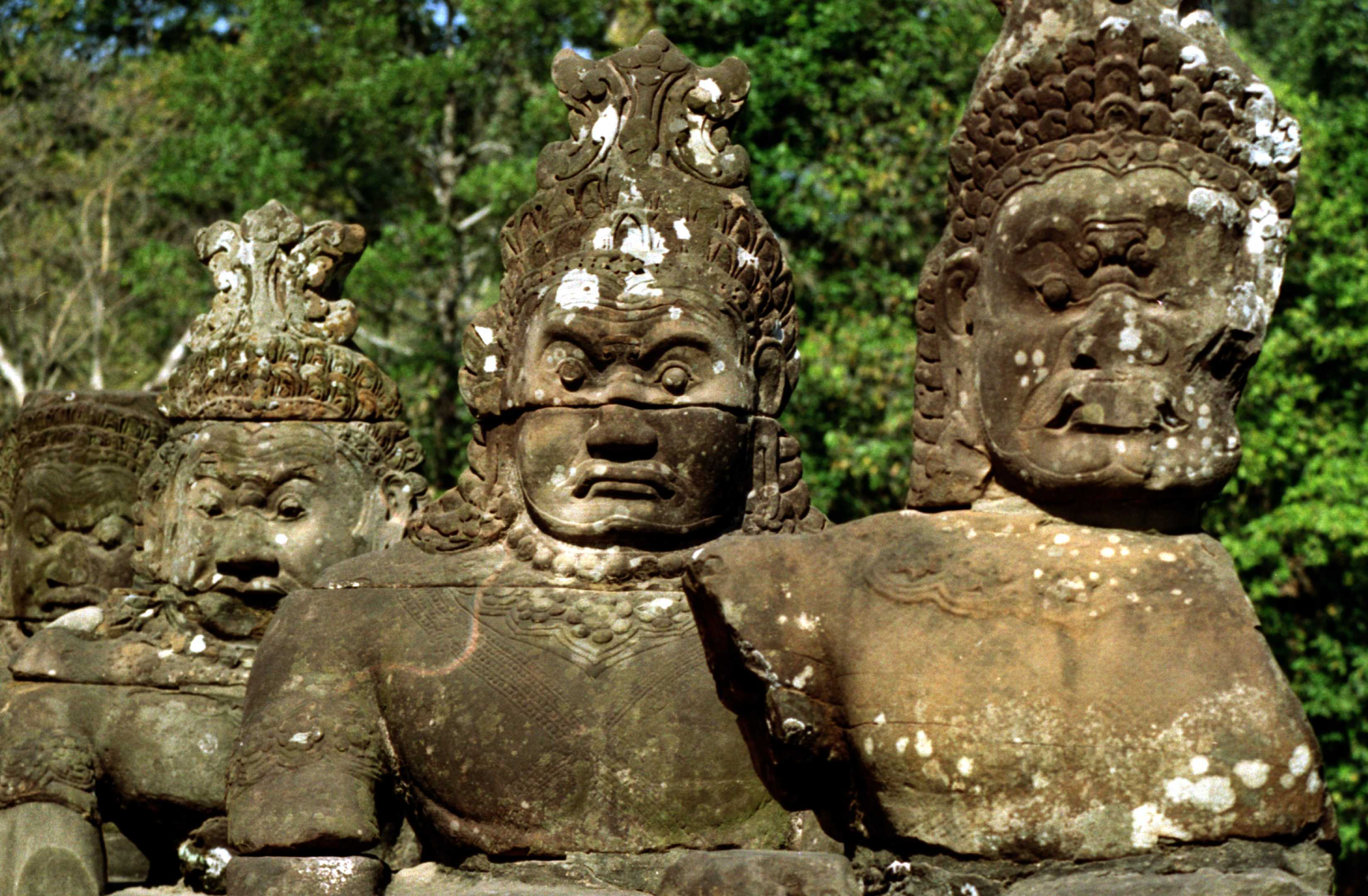 Heads of demons from the entrance to the southern gate of Angkor Thom (January 2005). Photo by Peter Rimar.